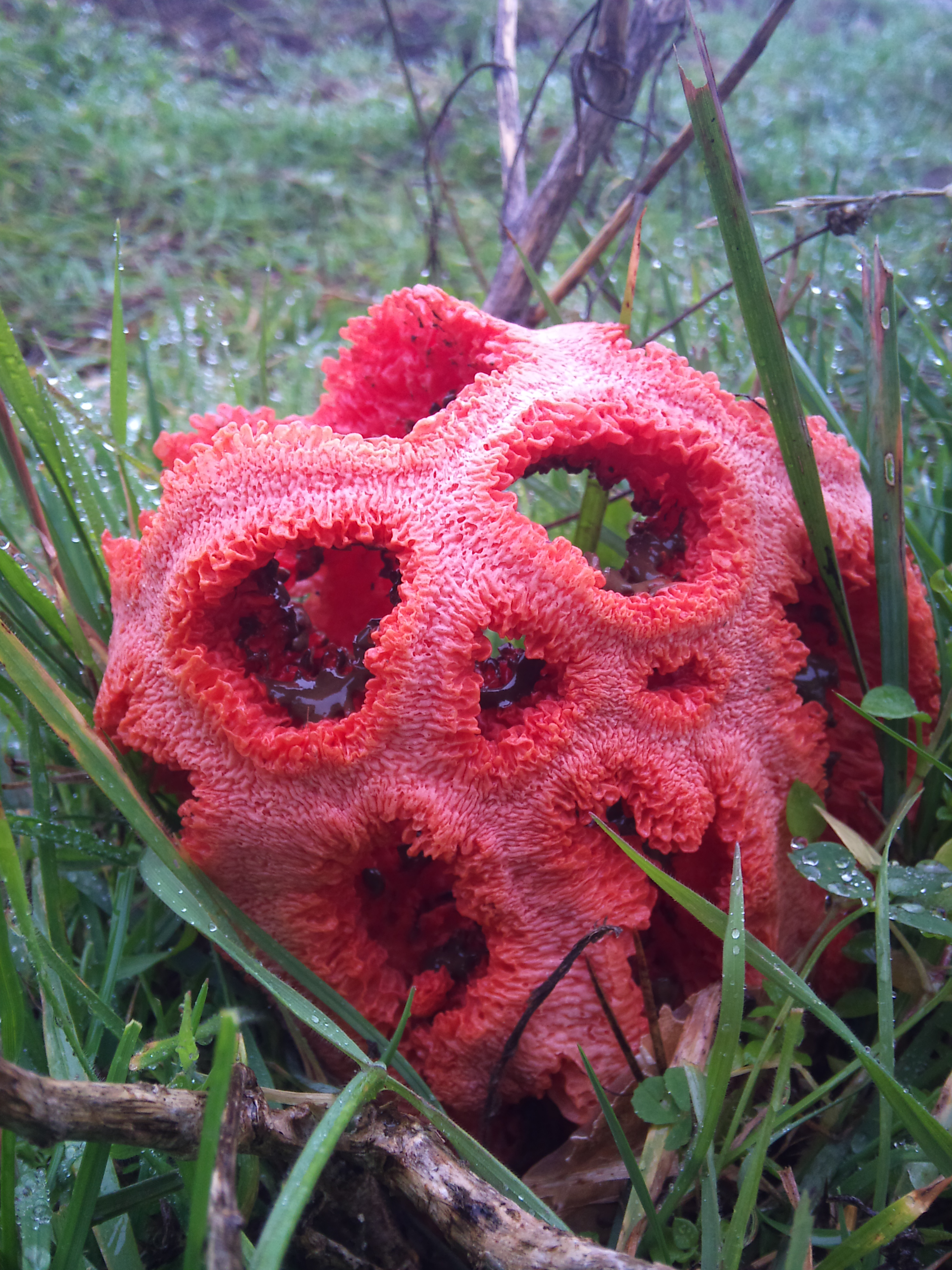 Mature Clathrus ruber (Berga, Catalonia)